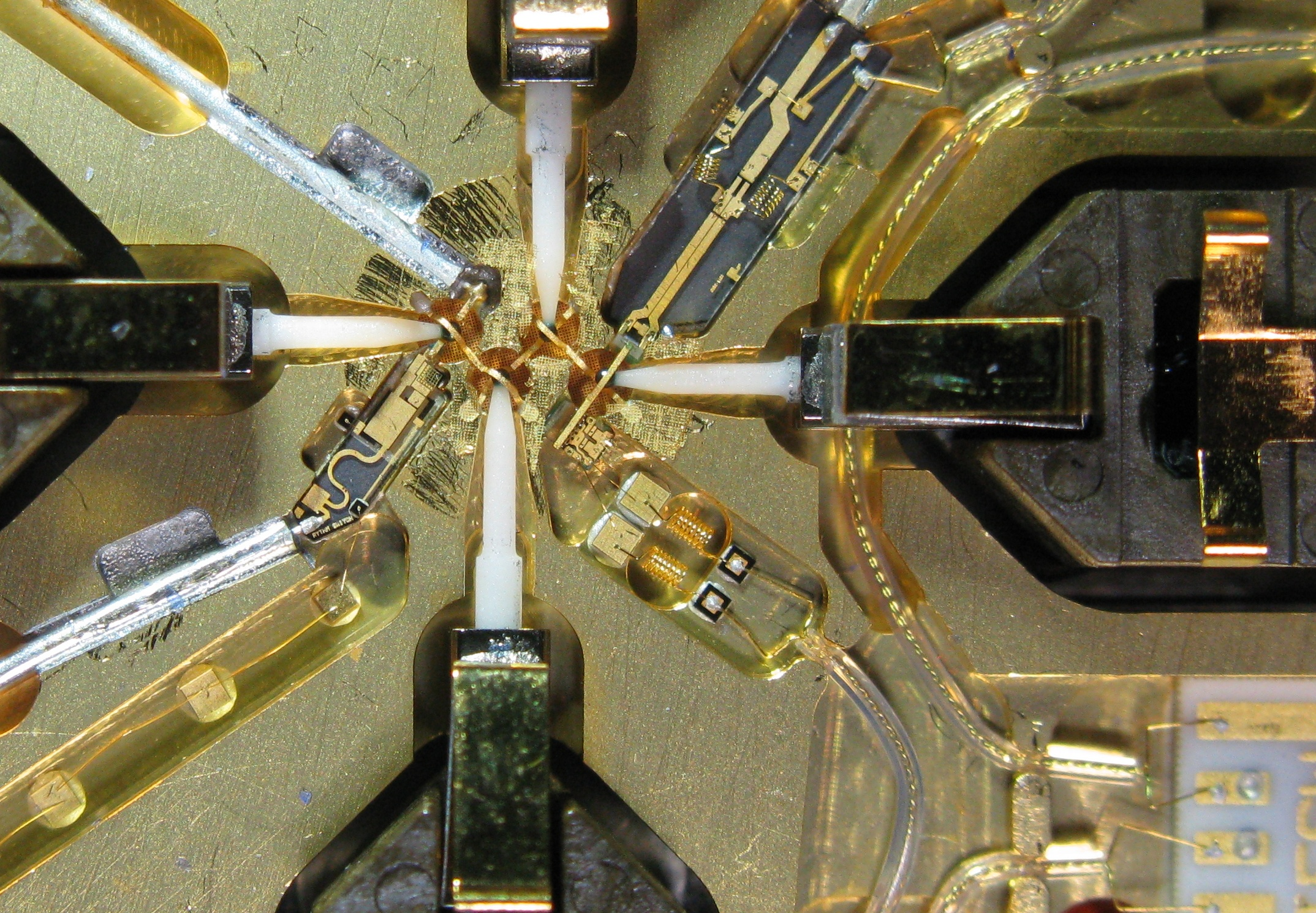 YIG tuned harmonic mixer, with a cover and magnetic system removed. 4-stage YIG is clearly visible in left-top part of the image.